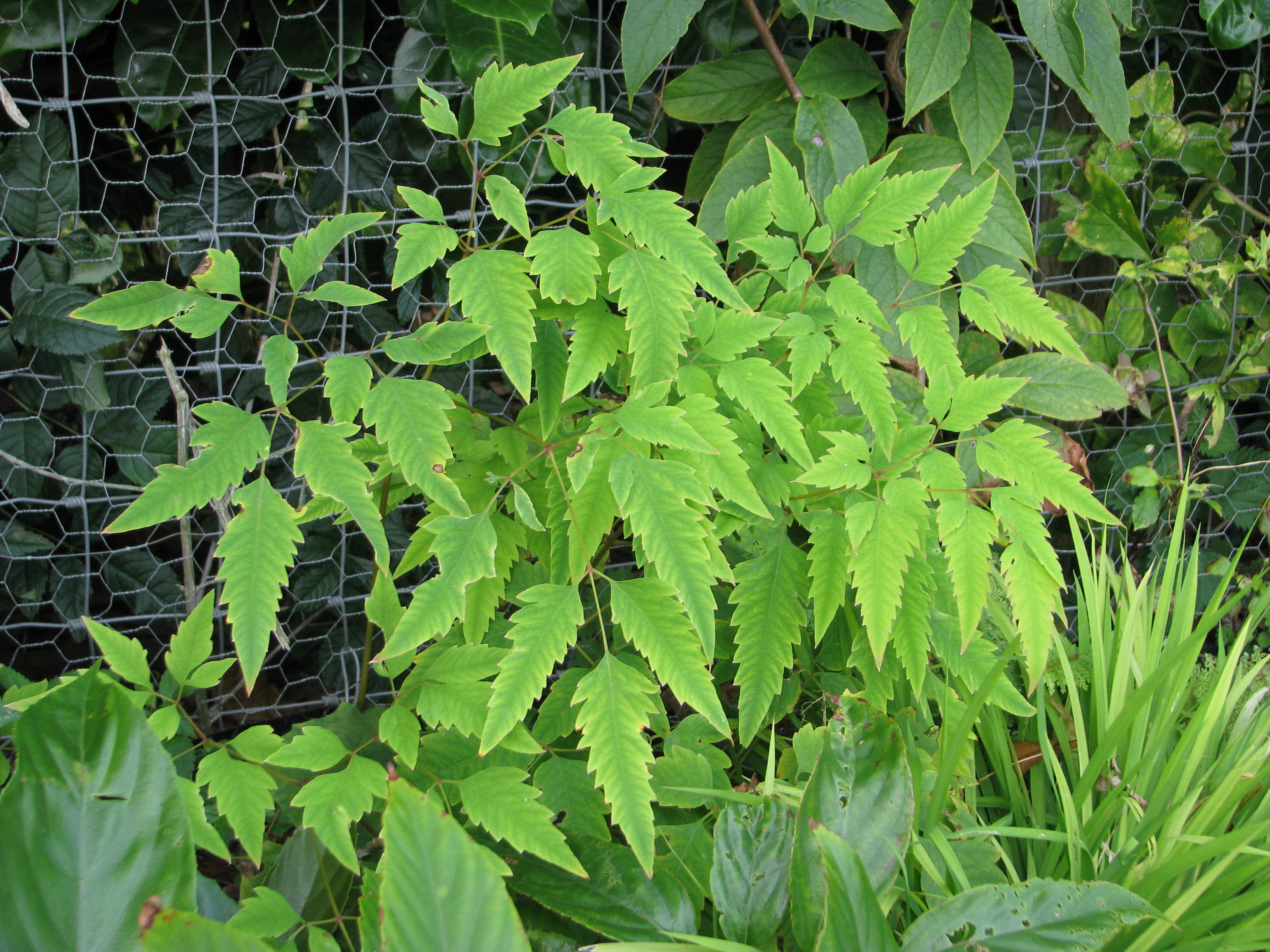 Nice foliage. No flowers yet